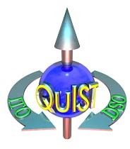 DARPA's logo for its Quantum Information Science and Technology Program (QUIST), established in 2002 to advance the field of quantum technology.